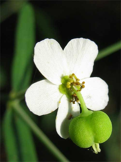 The blossom of a Flowering Spurge, (probably) Euphorbia pubentissima. This "flower" is actually a cyanthia about 1/5th of an inch across (5 mm). It contains several male flowers and one female flower (the big one). Thus the 5 white appendages aren't true petals.